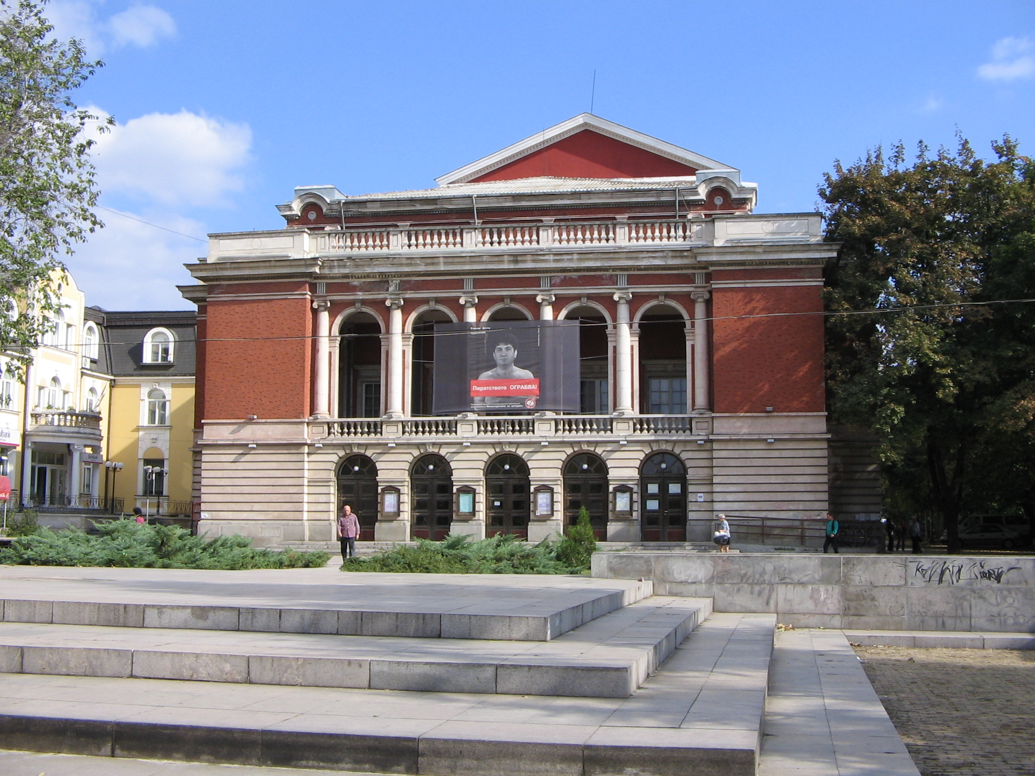 The building of the town opera in Rousse, Bulgaria